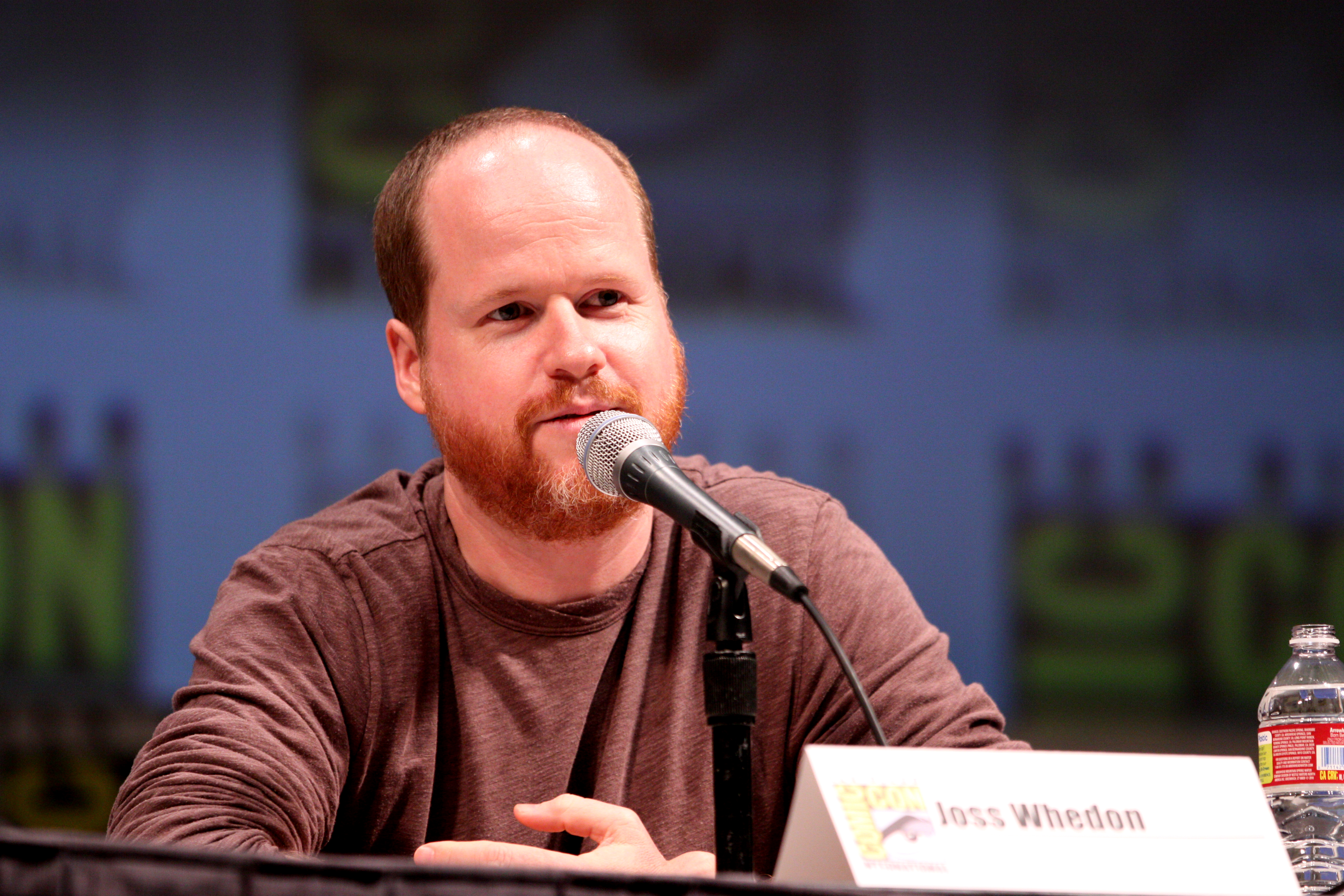 Writer and producer Joss Whedon at the 2010 San Diego Comic Con in San Diego, California.